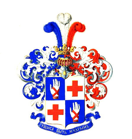 Coat of Arms of Shapirov family